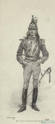 Lieutenant of cuirassiers, officier d'ordonnance to a general commanding an army corps, full dress (1880). This illustration appeared in L'Armee Française by Jules Richard, illustrated by Édouard Detaille, first published in 1885.